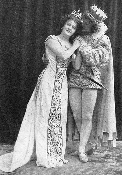 Victoria Strandin och Oscar Tropp in the ballet Askungen by Köller & Ellberg